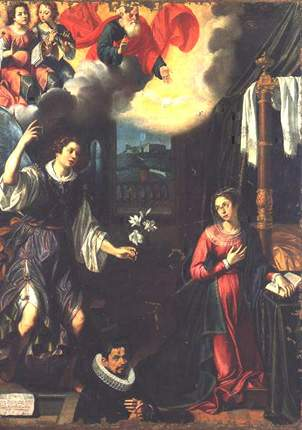 The Annunciation